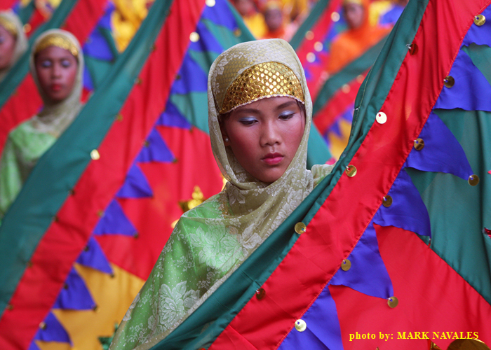 Maguindanao dance during colorful street dancing competition on 9th T' NALAK Festival in Koronadal, South Cotabato